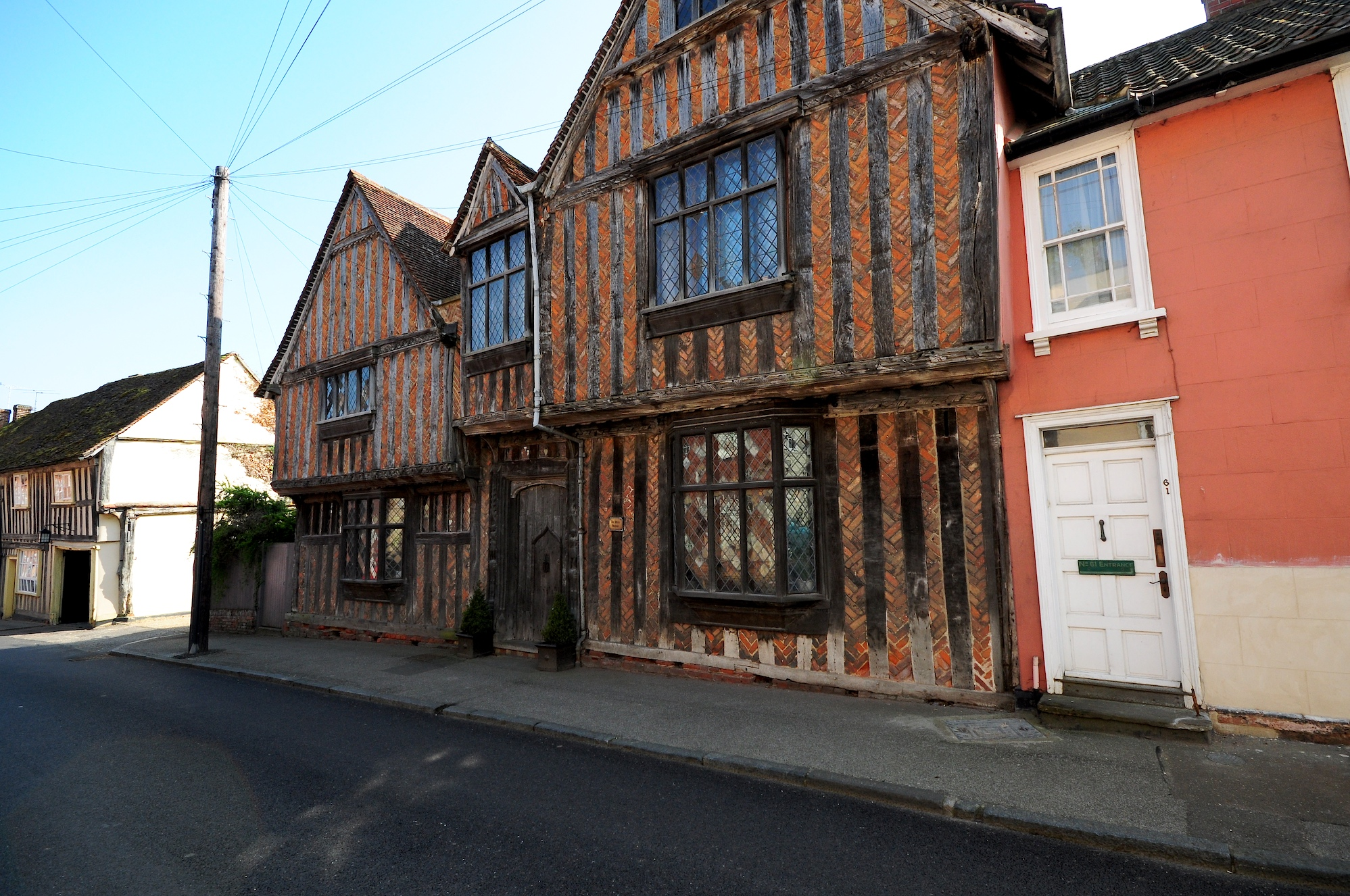 The De Vere House in Lavenham, Suffolk, England; it's also known as Oxford Cottage, and stands at No. 60 Water Street. It's a Grade I listed building.